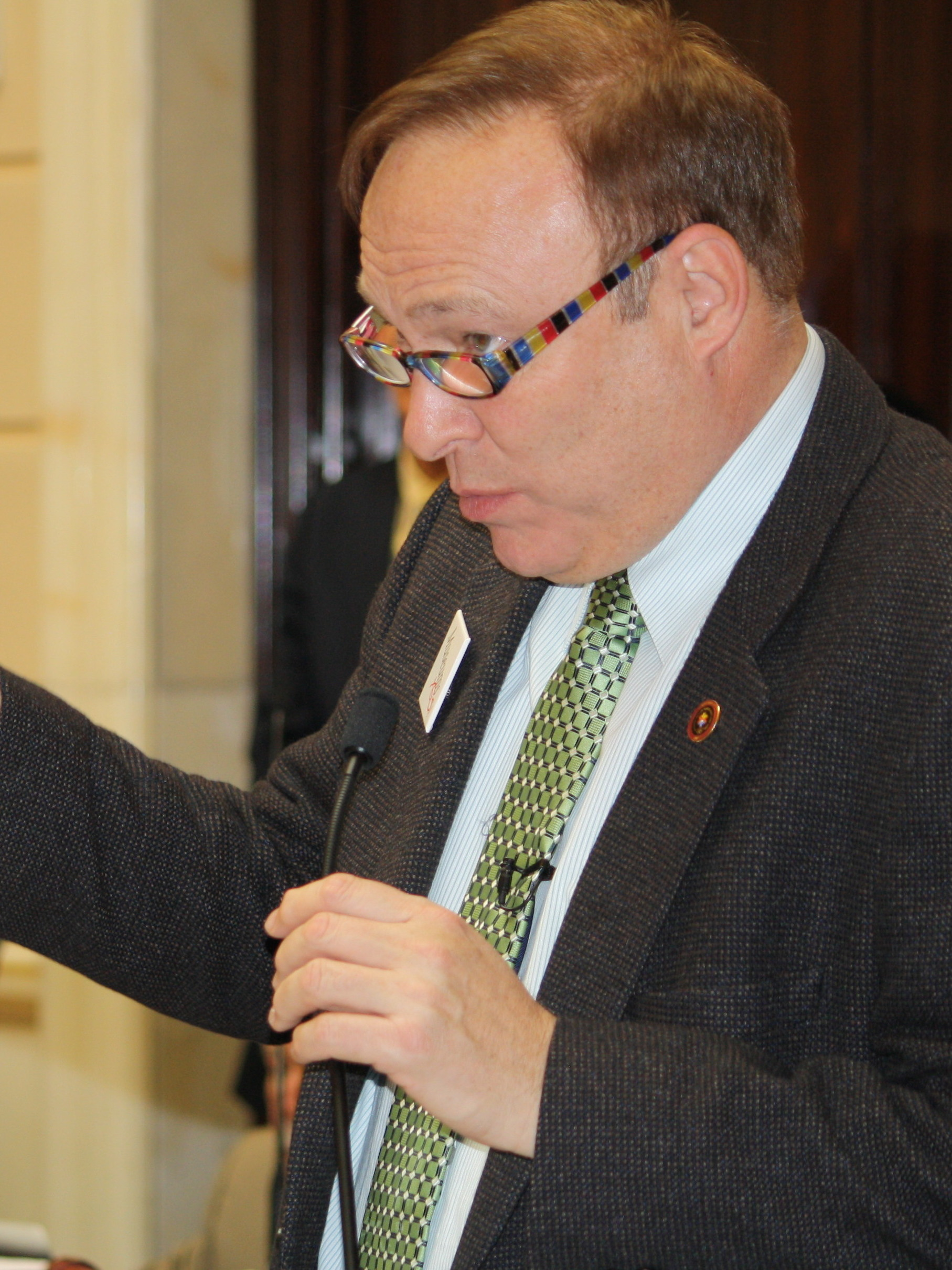 Senator Jim Dabakis